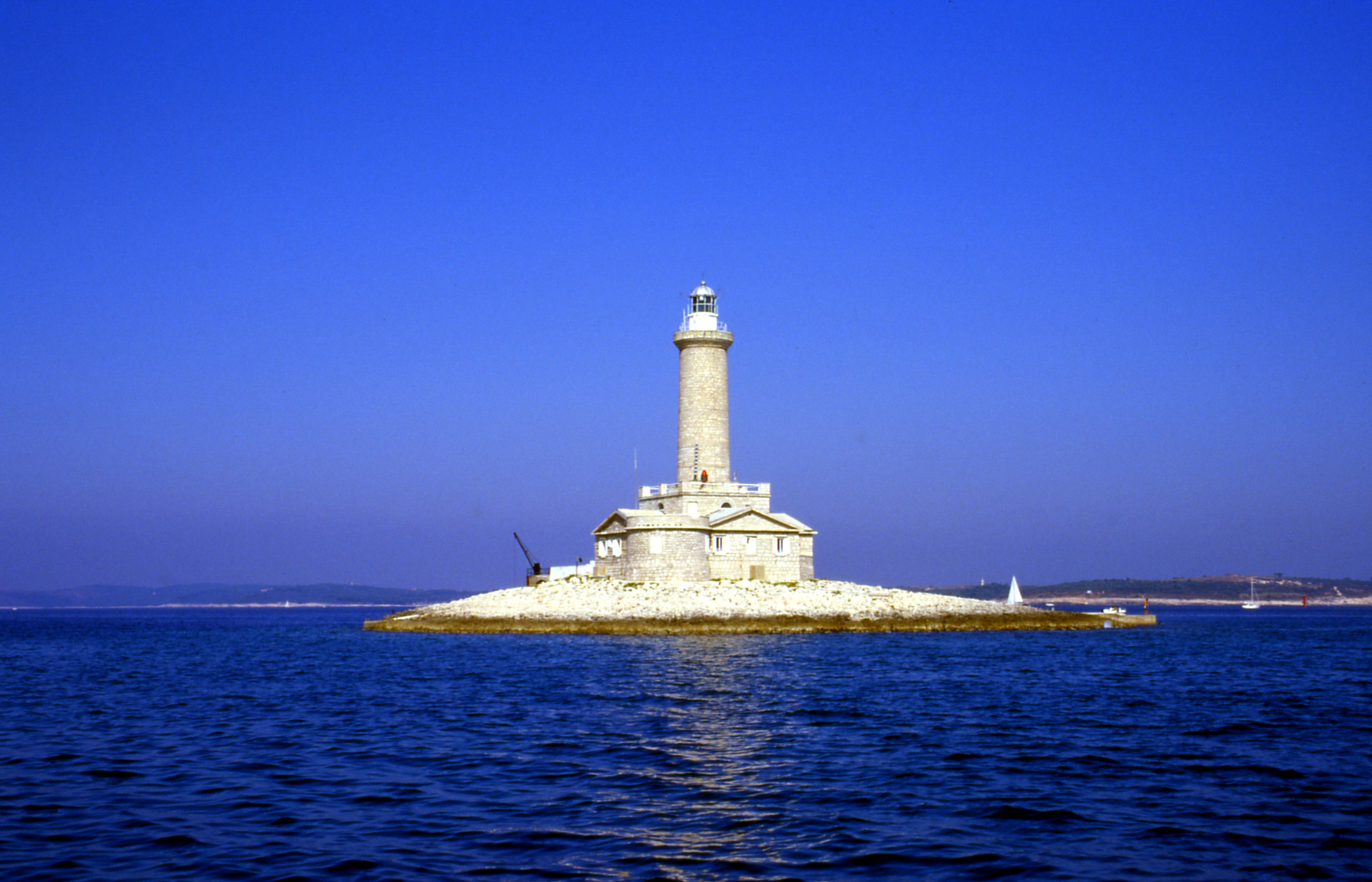 Lighthouse on the island (or rock) Porer near Pula, Croatia